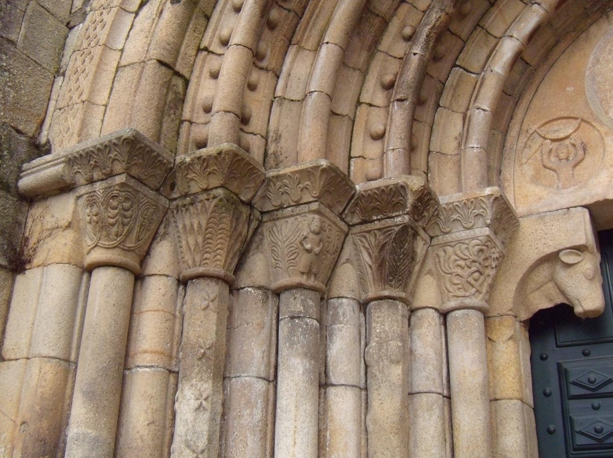 Monastery of Paço de Sousa, Penafiel - Portugal